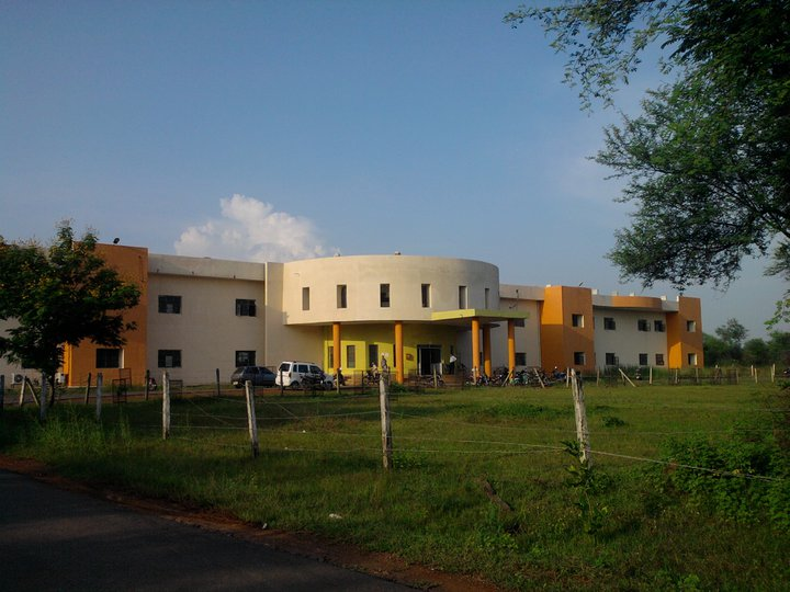 This the image of Institute of technology guru ghasidas vishwavidyalaya new building.